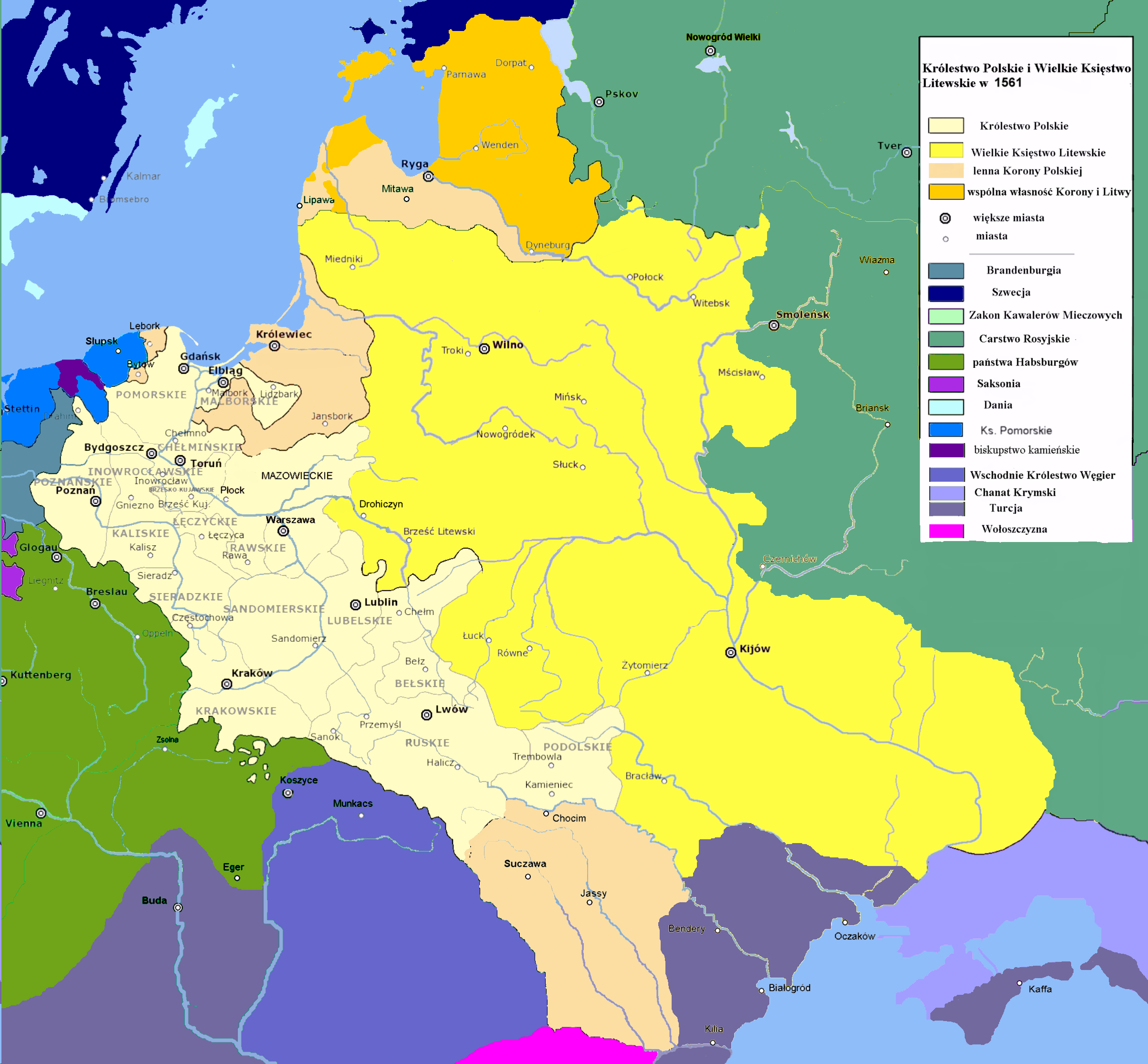 Poland and Lithuania in 1561